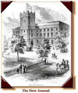 Springfield Armory